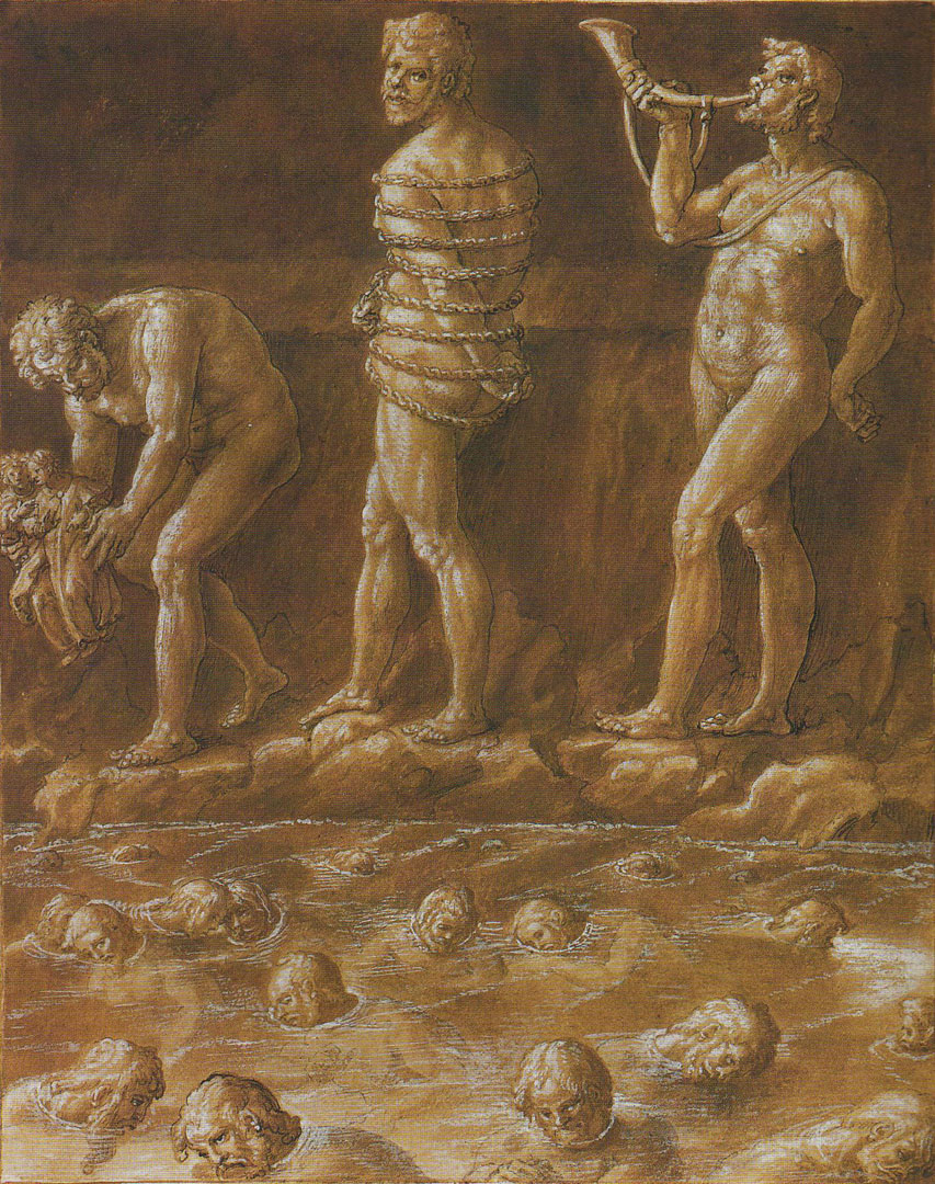 Illustration of Dante's Inferno, Canto 31